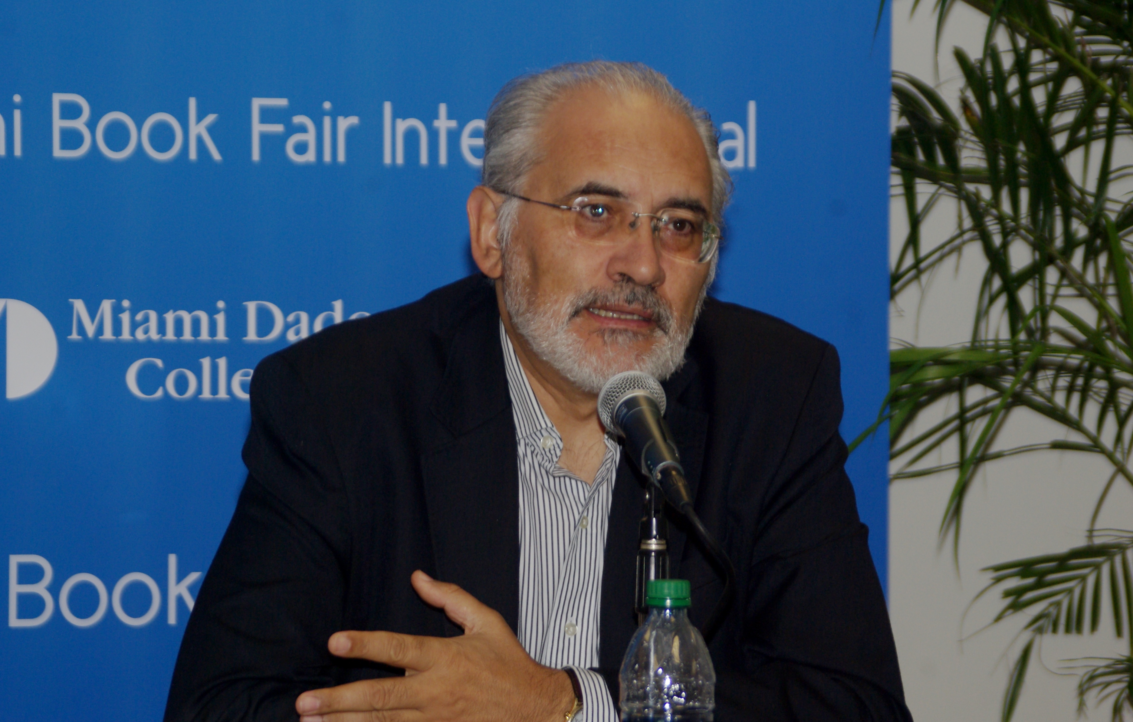 Author and former president of Bolivia Carlos Mesa at the Miami Book Fair International 2014